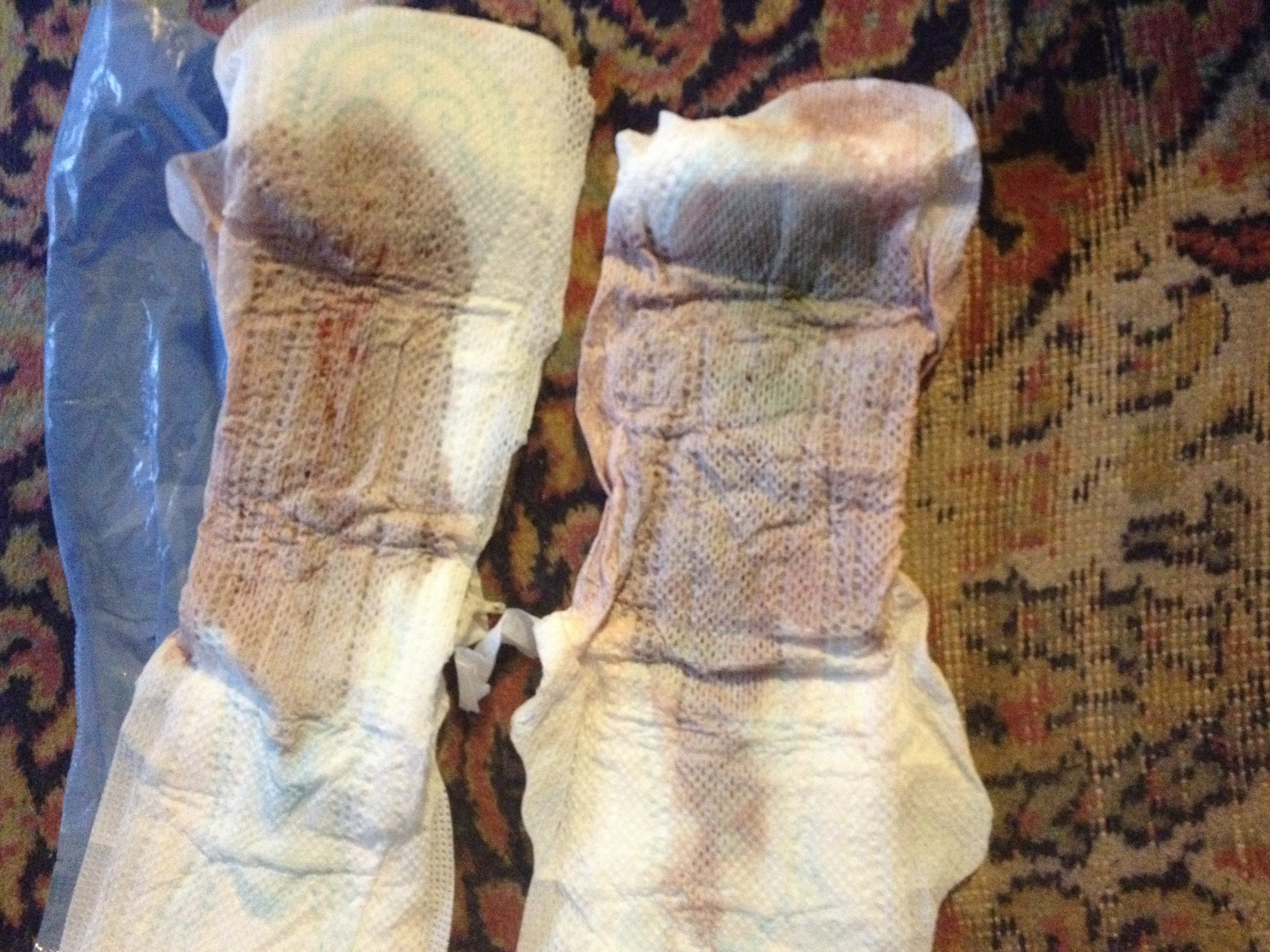 Used hygienic protections